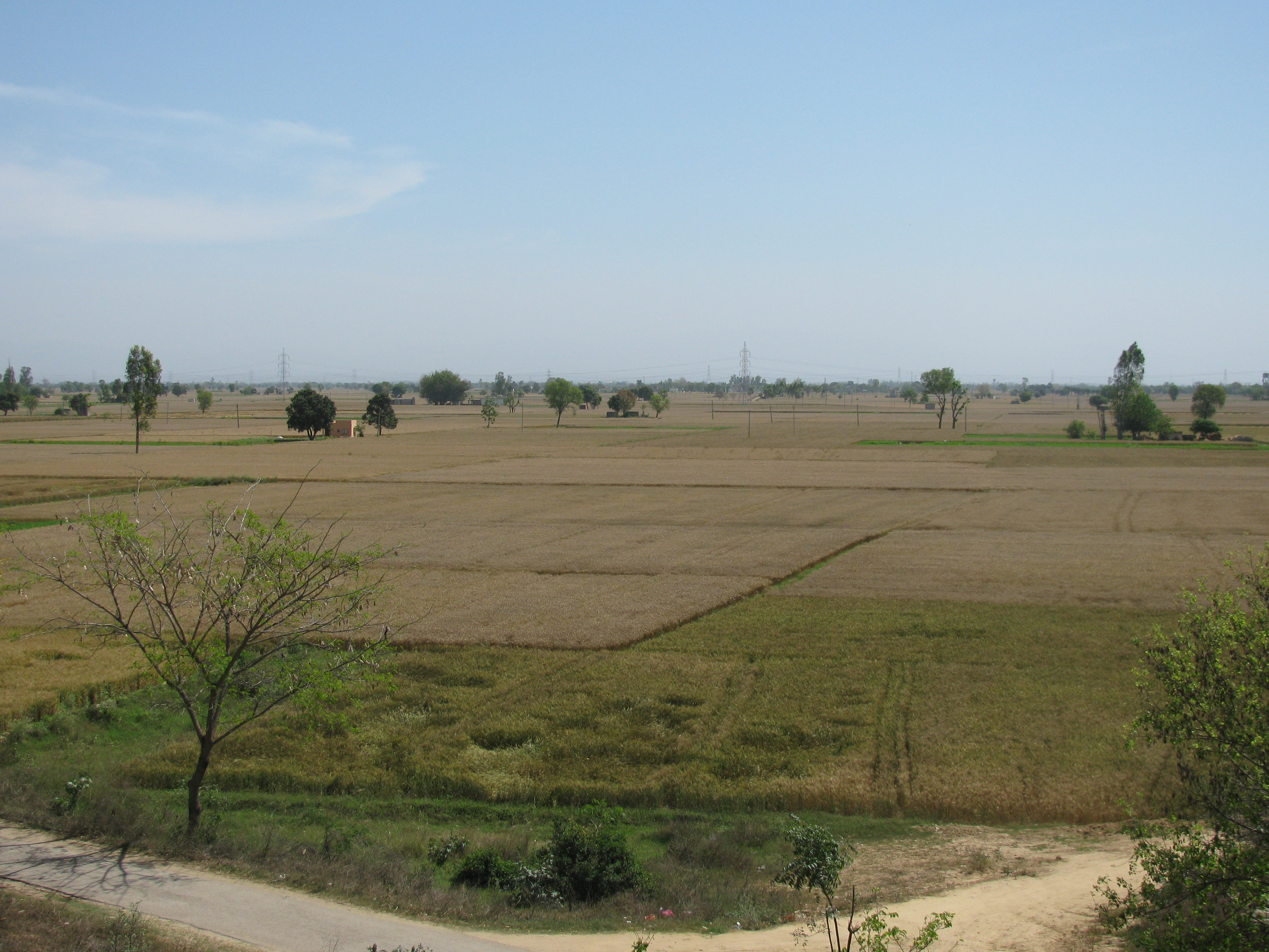 Typical Punjabi Landscape in April